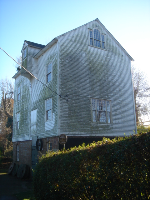 Ifield Water Mill, Ifield, Crawley, West Sussex, England. Large three-storey weatherboarded building, built in 1817 next to millpond. Listed at Grade II by English Heritage (ref #363361)